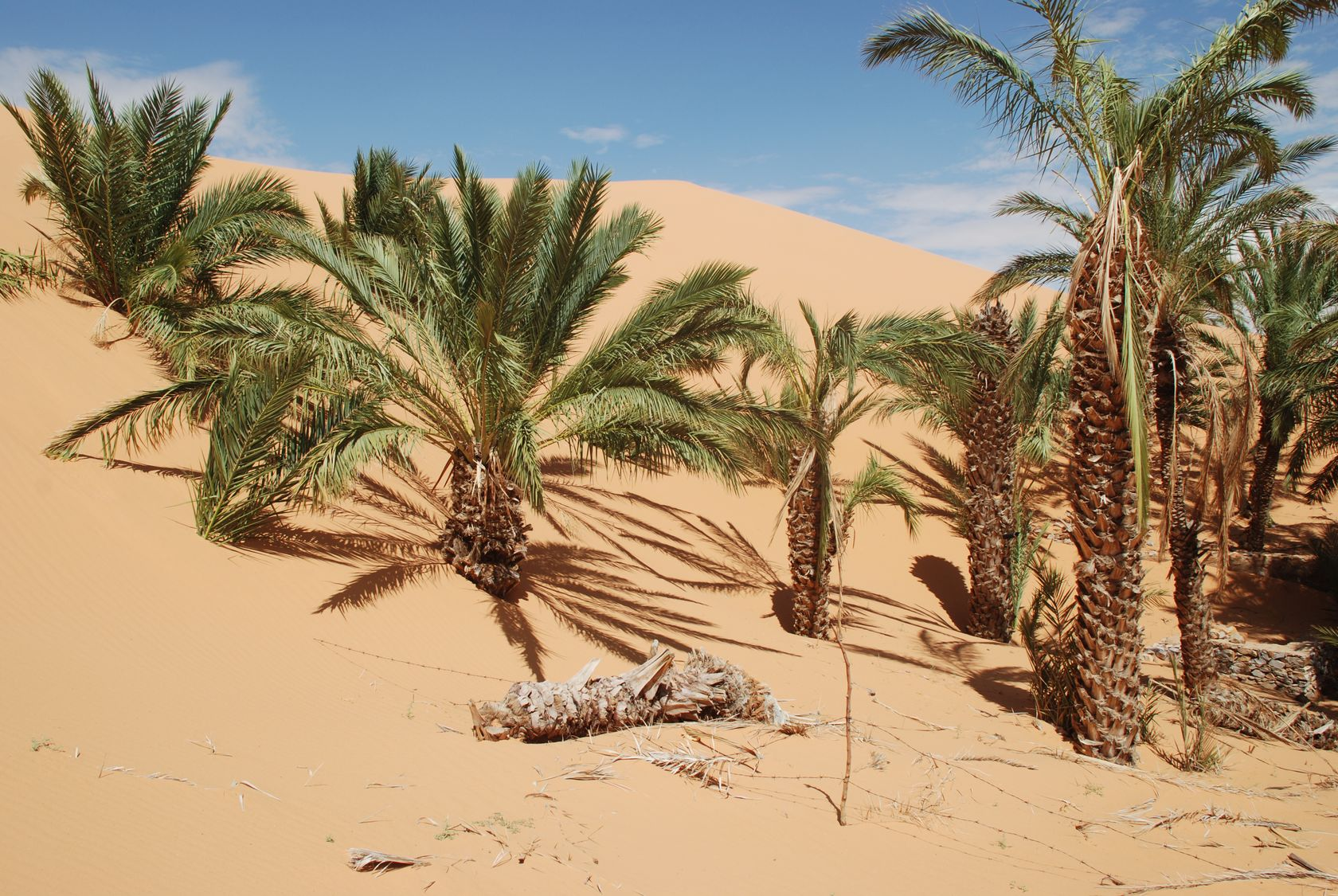 Chinguetti, Mauritania, oasis sanding up